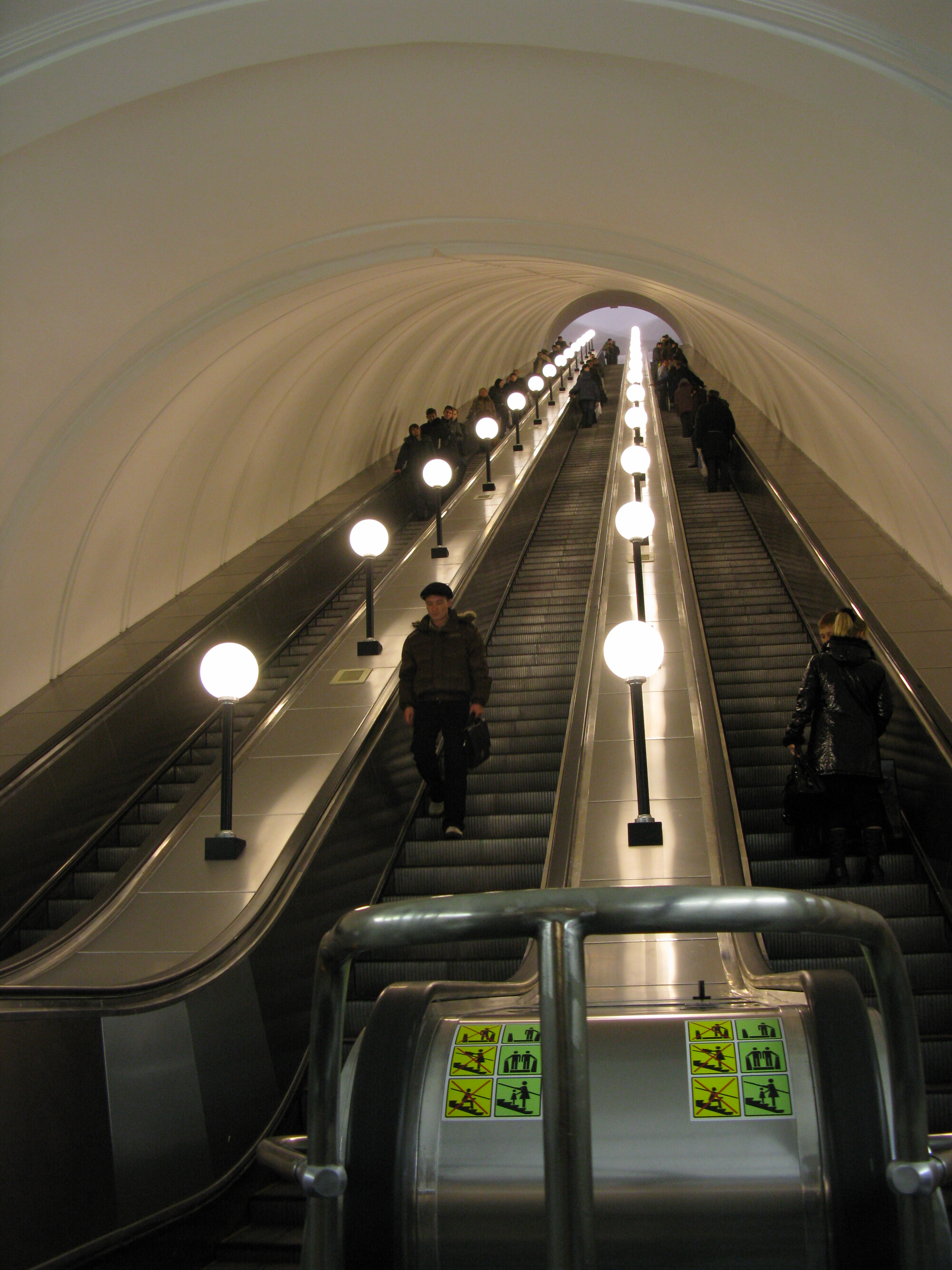 New escalators on Elektrozavodskaya station of Moscow Metro after reconstruction